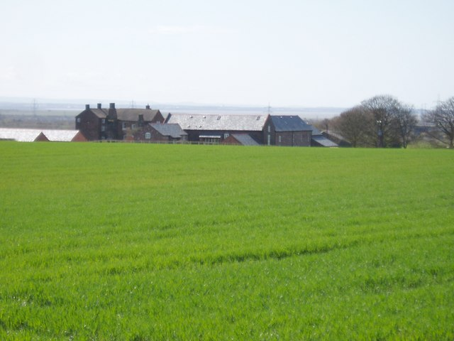 Sutton Hall from Aston Lane looking east The Mersey Estuary can just be seen in the distance